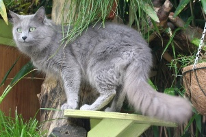 Nebelung male; International Champion Aleksandr van Song de Chine. Owner Anke Zekveld/ cattery Azadeh